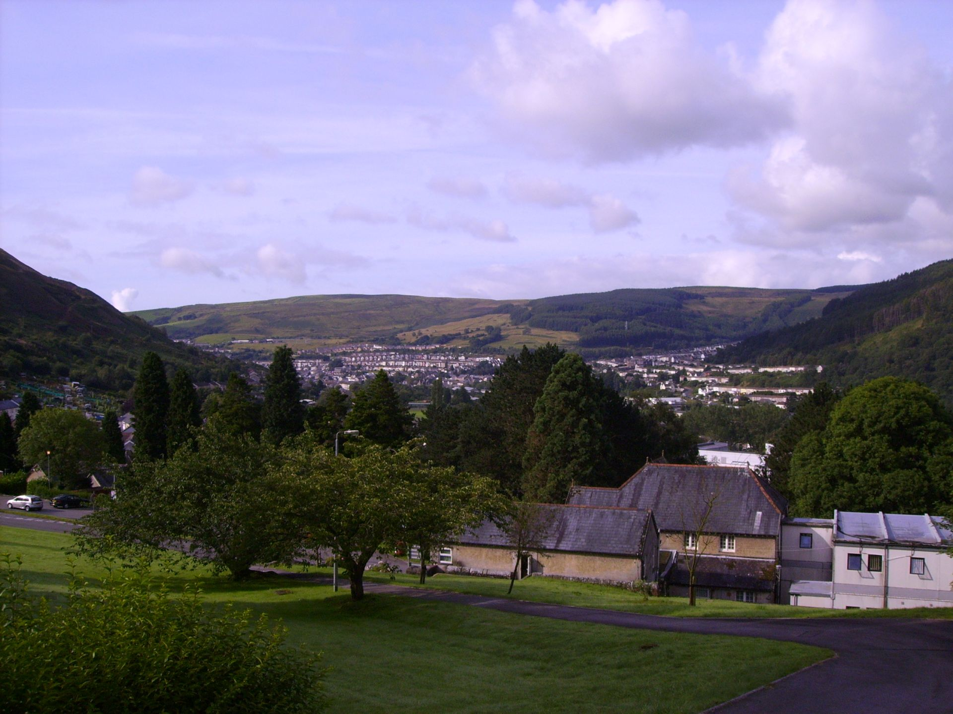 Llwynypia and Tonypandy looking South from Llwynypia Hospital, Rhondda, South Wales